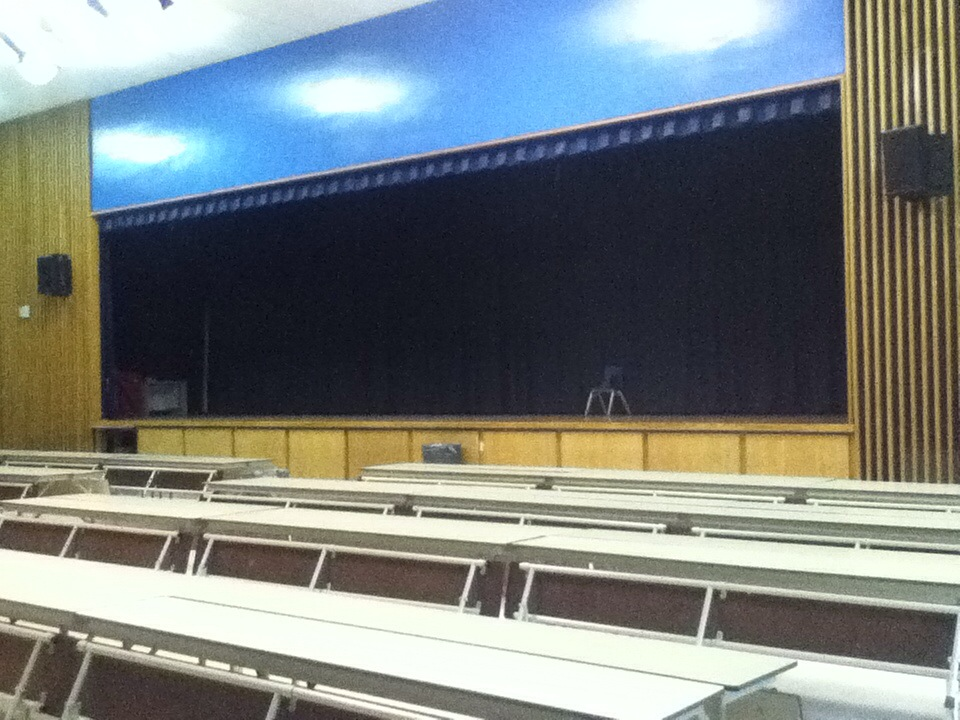 A view of the school's cafetorium with the stage.